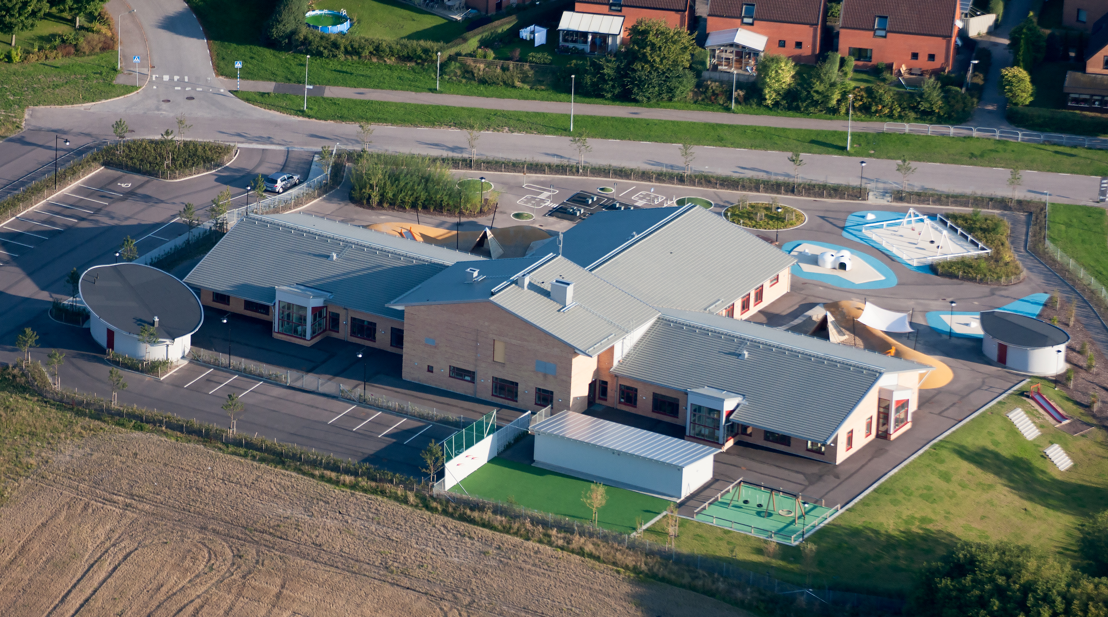 Östragården kindergarten in Åkarp, Sweden, opened in August, 2013.